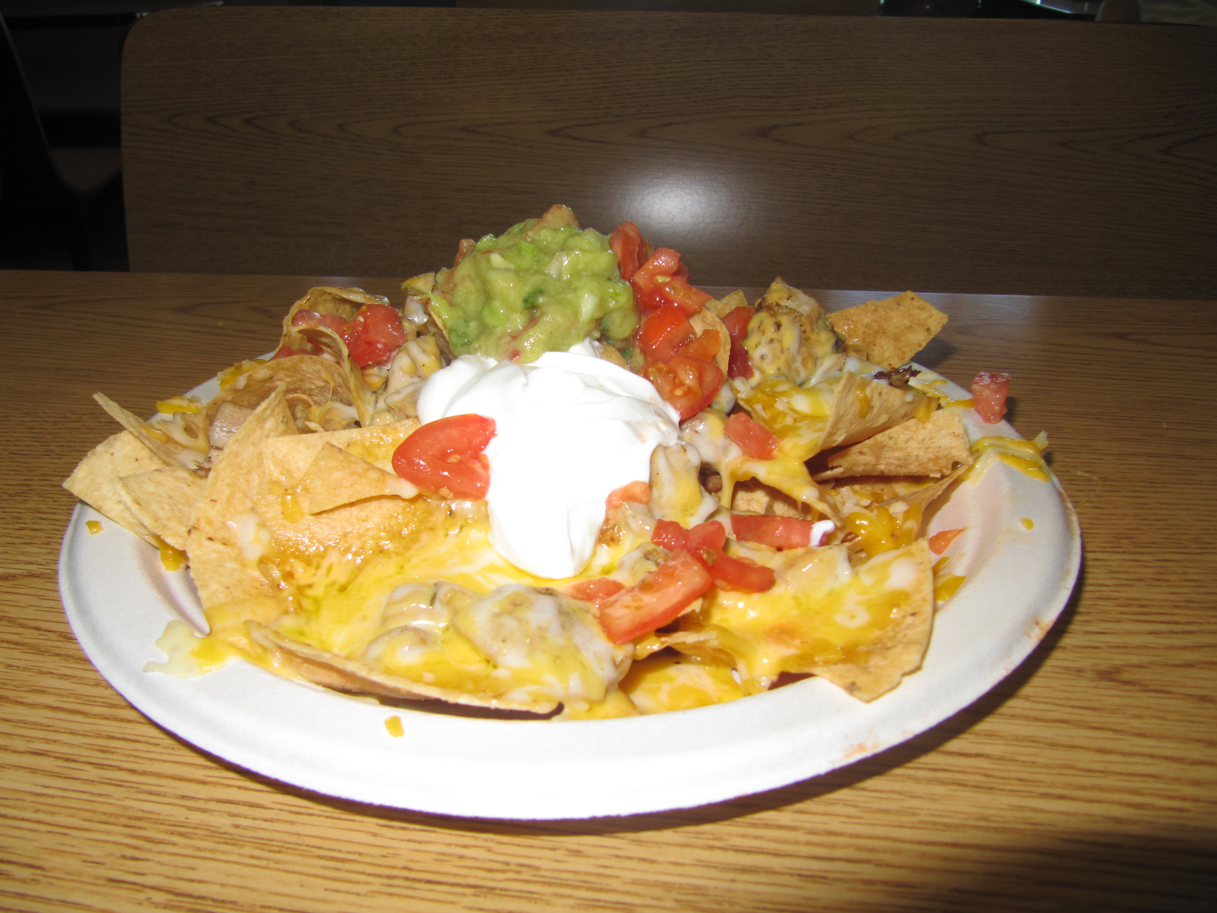 A plate of Nachos at Maui Tacos, a Mexican fast food chain originating in Maui, Hawaii, with locations in Hawaii and the Continental United States.